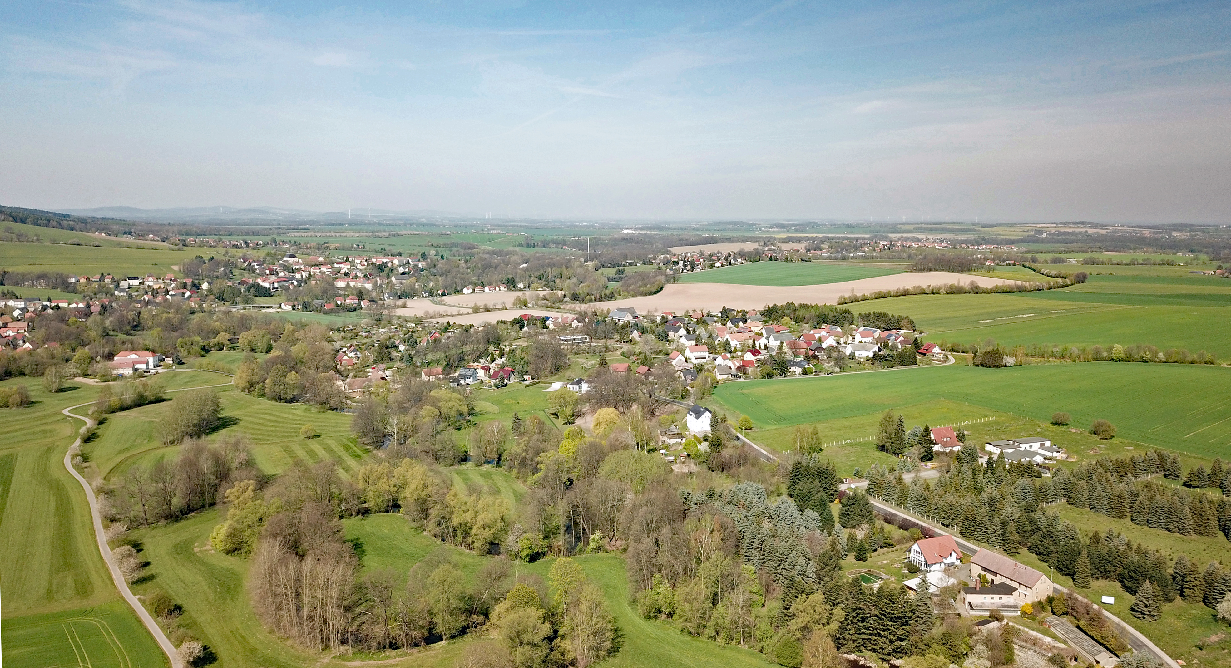 Großdöbschütz, Obergurig, Saxony, Germany Hornjoserbsce: Powětrowy wobraz Debsec